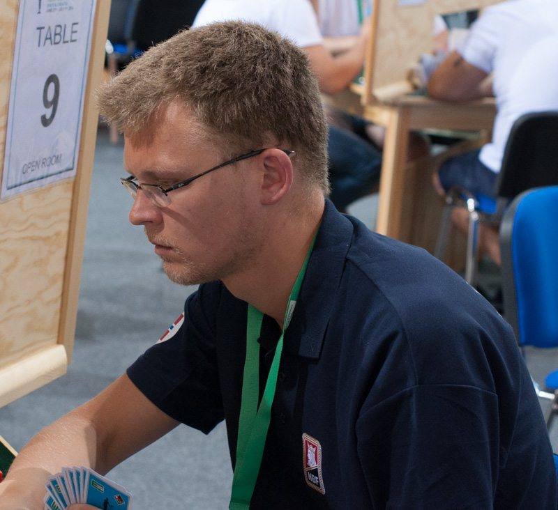 E Lindqvist Norway